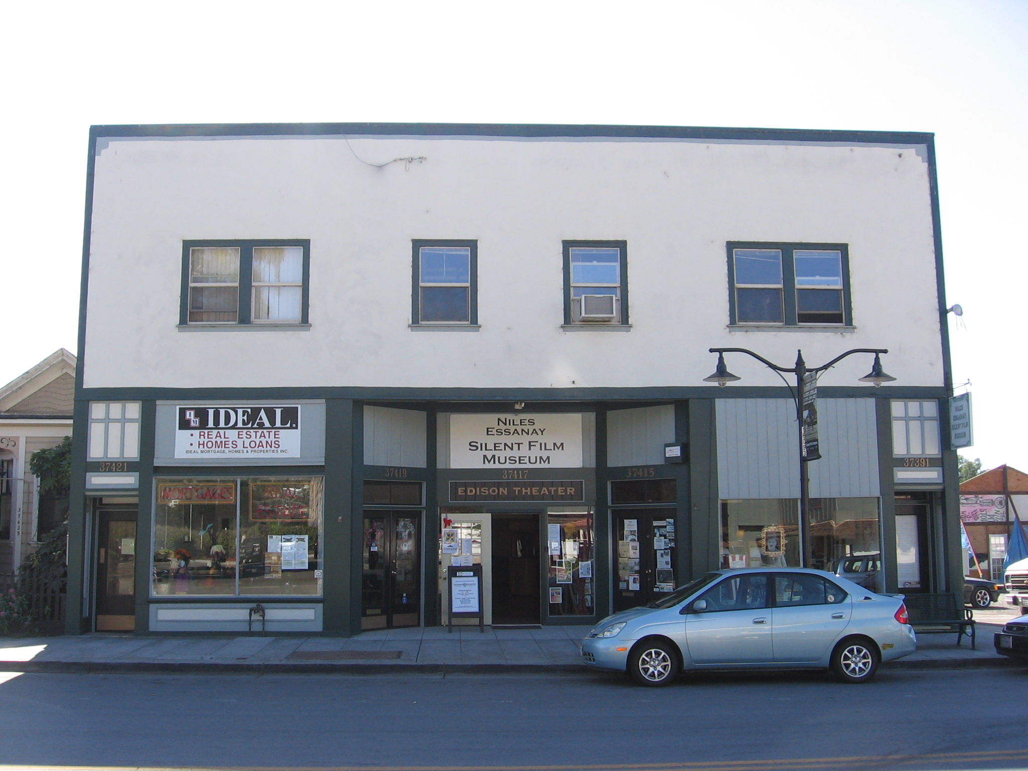 The Niles Essany Silent Film Museum ("Edison Theater") in the Niles district of Fremont, California, USA.